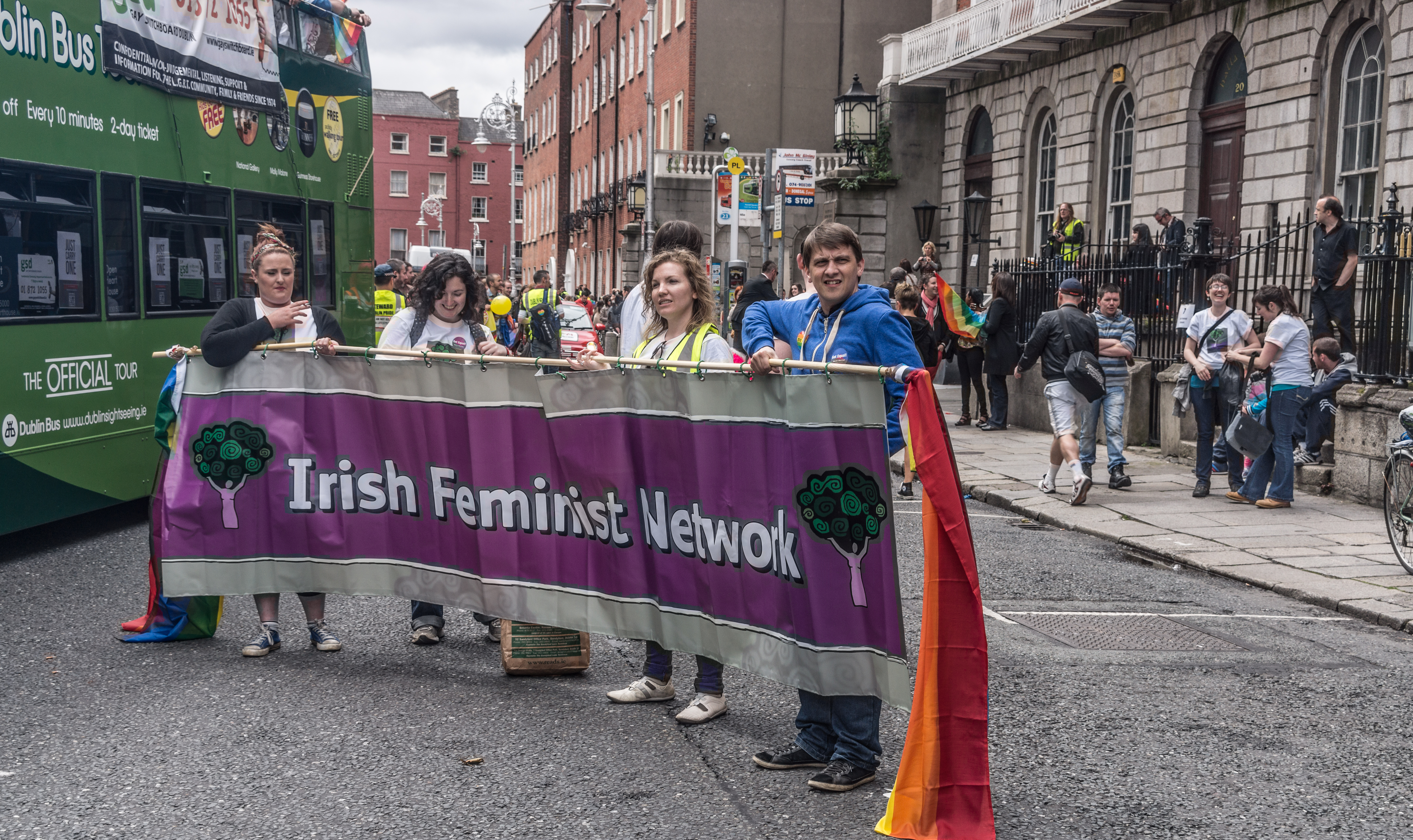 This event (the parade) is a favorite of mine. However, this year it looked like there were more photographers than participants and in my opinion the parade appeared to be more low-key than last year, maybe the weather (or the equally depressing economy) had an impact. It also started on time unlike previous years. 2012: "Show your True Colours" This year's festival started on the 22nd June and will continue until 1st July 2012. Today's parade being the flagship event. This year the festival moved from Dublin City Council's Civic Offices on Wood Quay to Merrion Square using 3 of the 4 roads around the park and family areas available to use inside the park. This also involved the parade route moving from it traditional route along Dame Street to further south in the city, along Baggot Street to the final destination Event at Merrion Square. The new venue has a capacity for up to 15,000 people and space for vendors to sell food and beverages to the public. The Dublin LGBTQ Pride Festival is an annual series of events which celebrates lesbian, gay, bisexual, transgender, queer (LGBTQ) life in Dublin, Ireland. It is the largest LGBTQ pride festival in the Republic of Ireland. The festival culminates in a pride parade which is held in June. The event has grown from a one-day event in 1983 to a ten-day festival celebrating LGBT culture in Ireland with an expanded arts, social and cultural content.